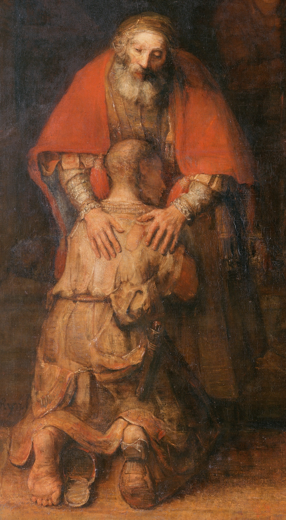 REMBRANDT Harmenszoon van Rijn The Return of the Prodigal Son c. 1669 Oil on canvas, 262 x 206 cm, The Hermitage, St. Petersburg